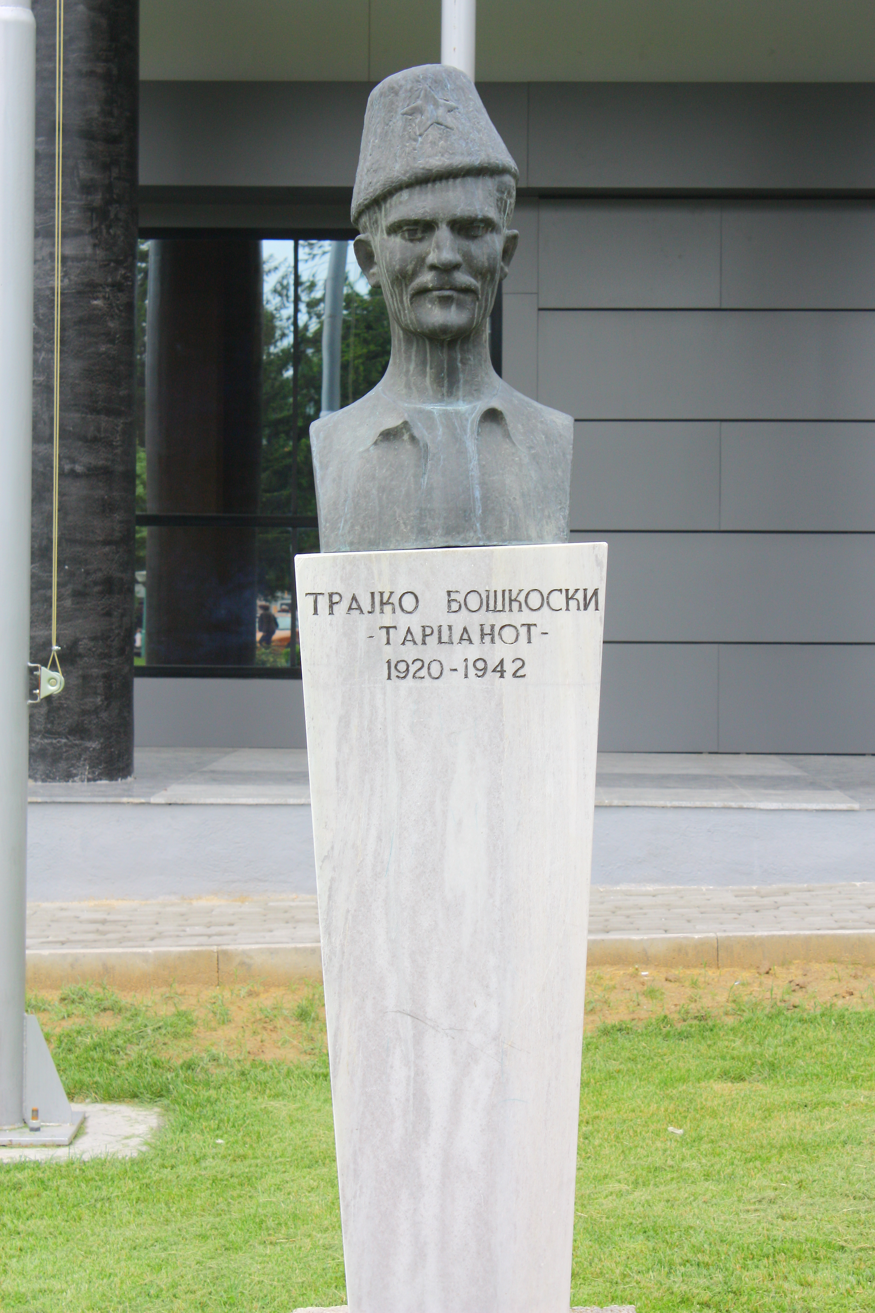 Macedonian partisan Trajko Boškoski - Tarcan